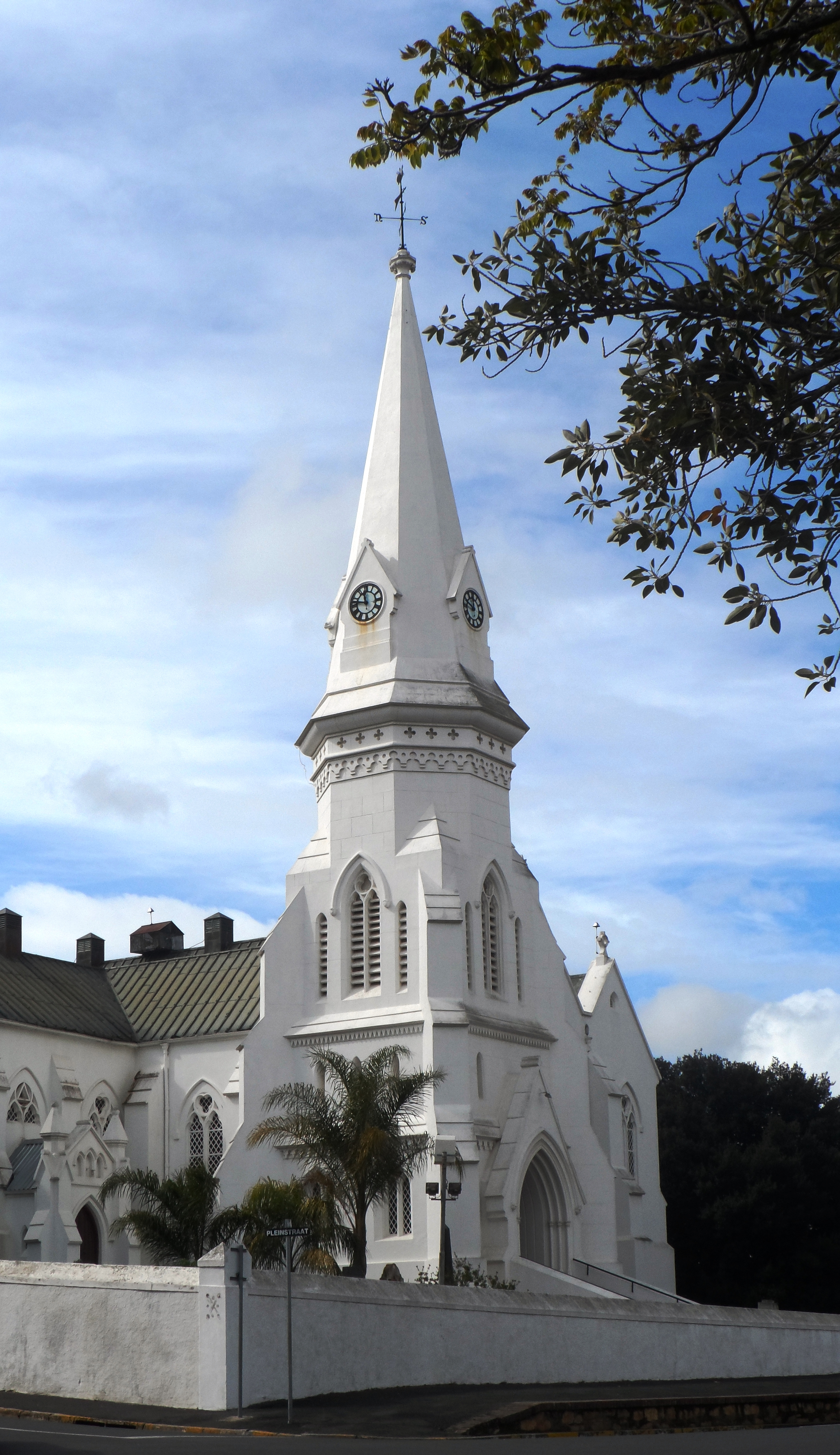 Dutch Reformed Church, Church street, Malmesbury This media shows a South African Protected Site with SAHRA file reference 9/2/060/0023.